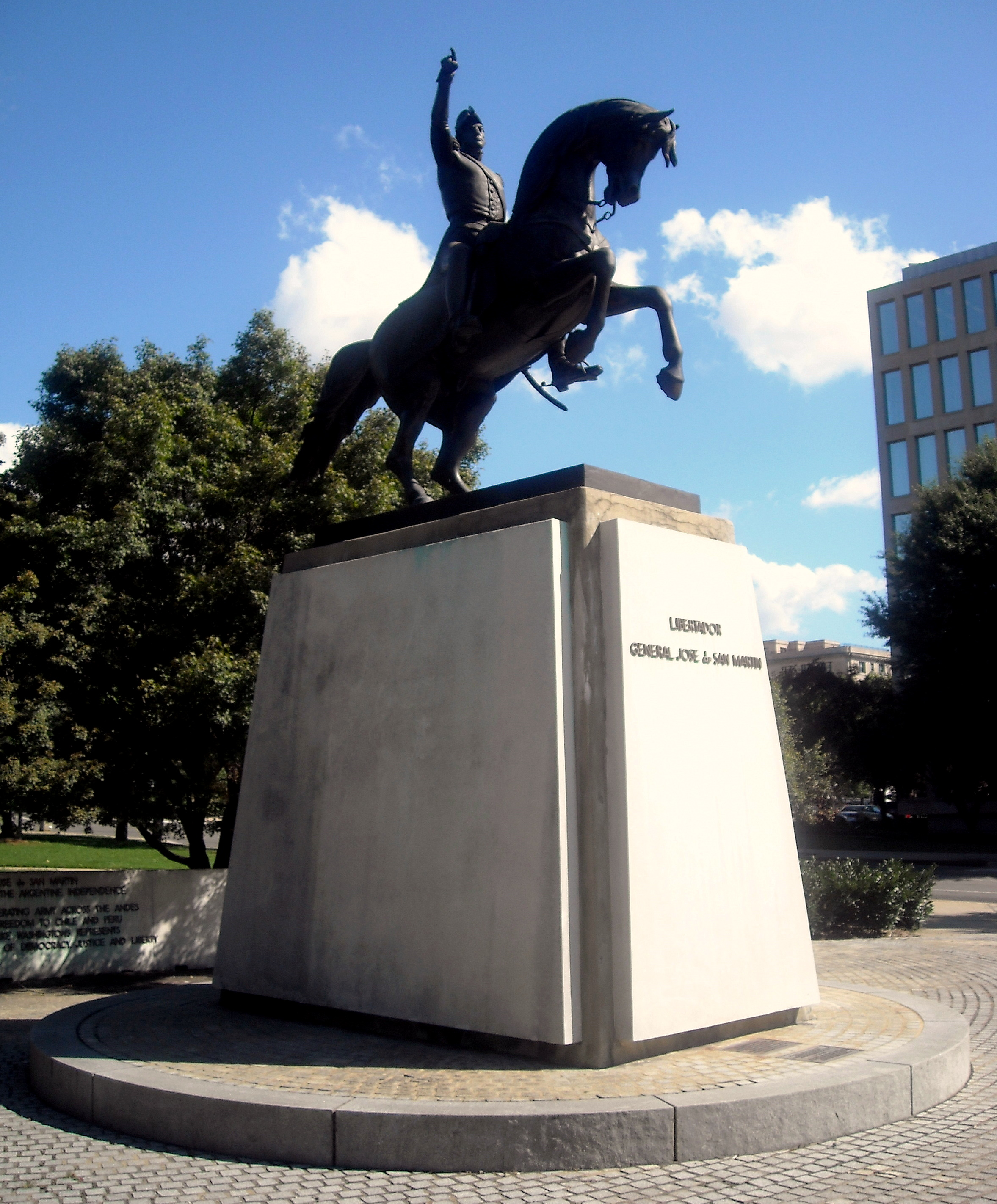 The General Jose de San Martin Memorial located at 20th Street and Virginia Avenue, NW in the Foggy Bottom neighborhood of Washington, D.C. It was designed by Augustin-Alexandre Dumont in 1924 and is listed on the National Register of Historic Places.